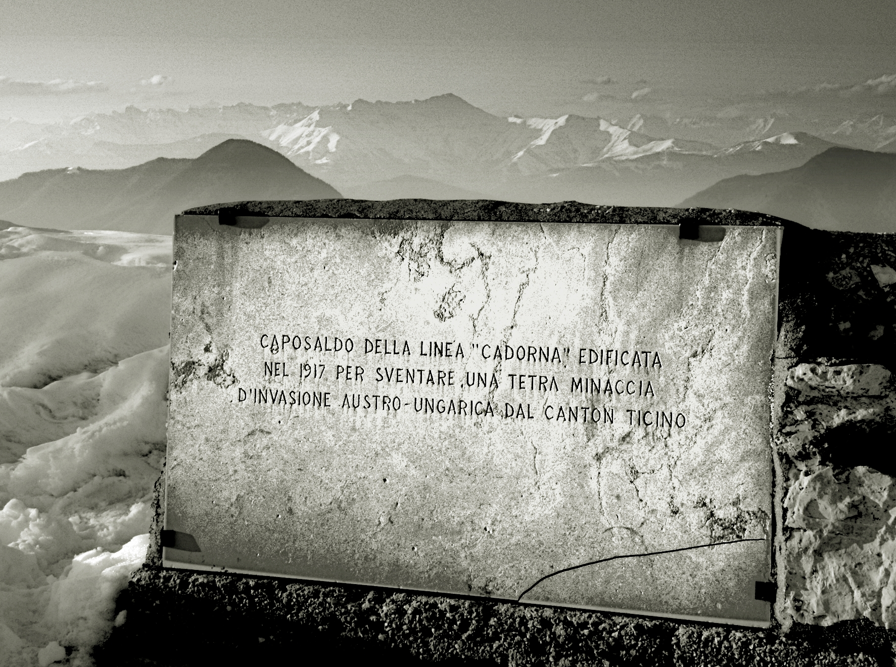 "Cadorna Line" Mount Campo dei Fiori - Varese - Italy 1224 mt.